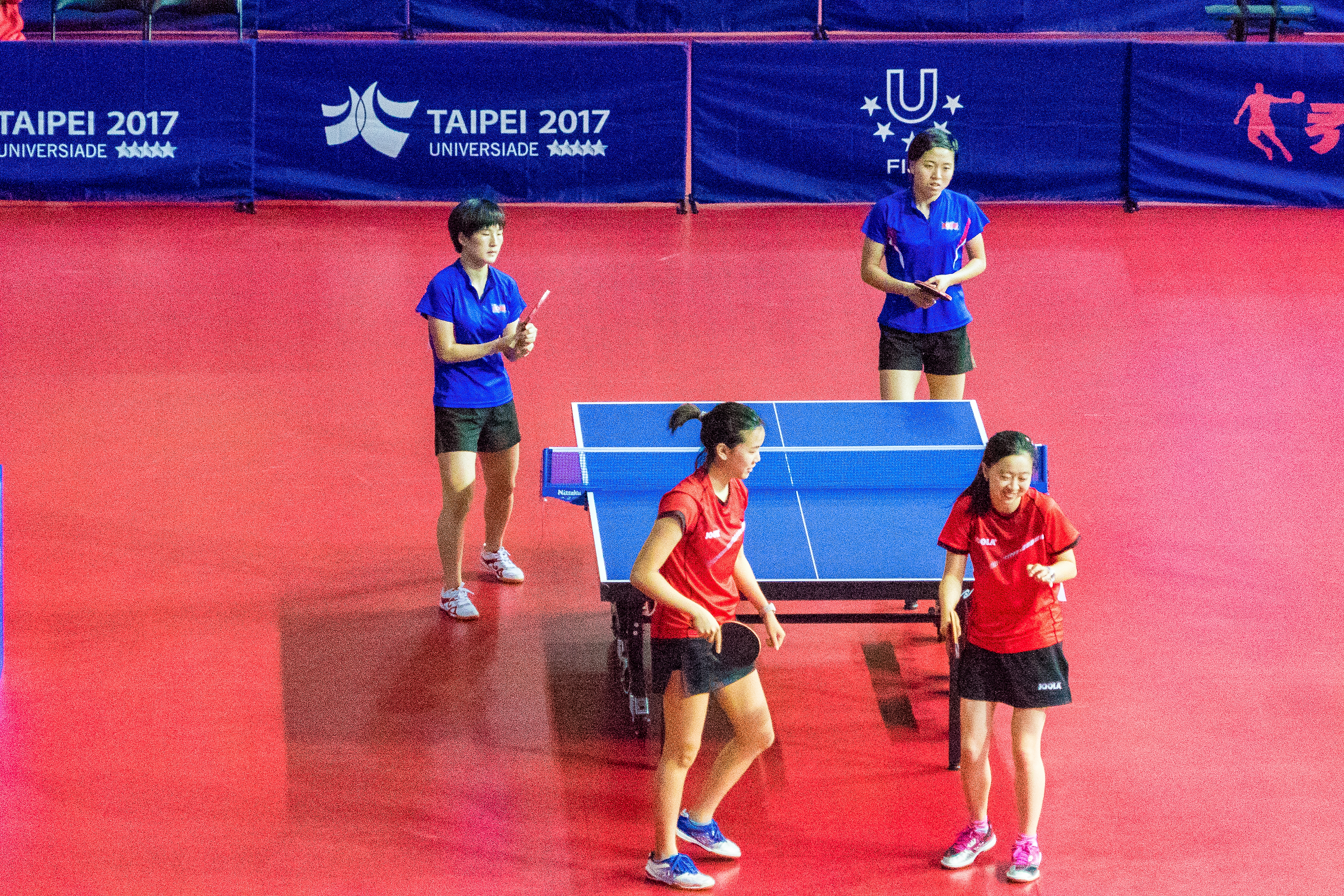 2017 Taipei Summer Universiade